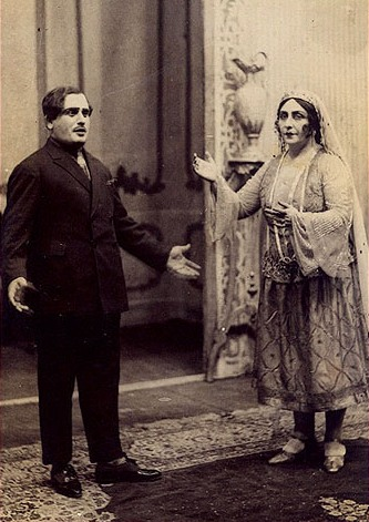 Khurshud Kajar as Gulchohra and Hajibababeyov as Asgar in 1929